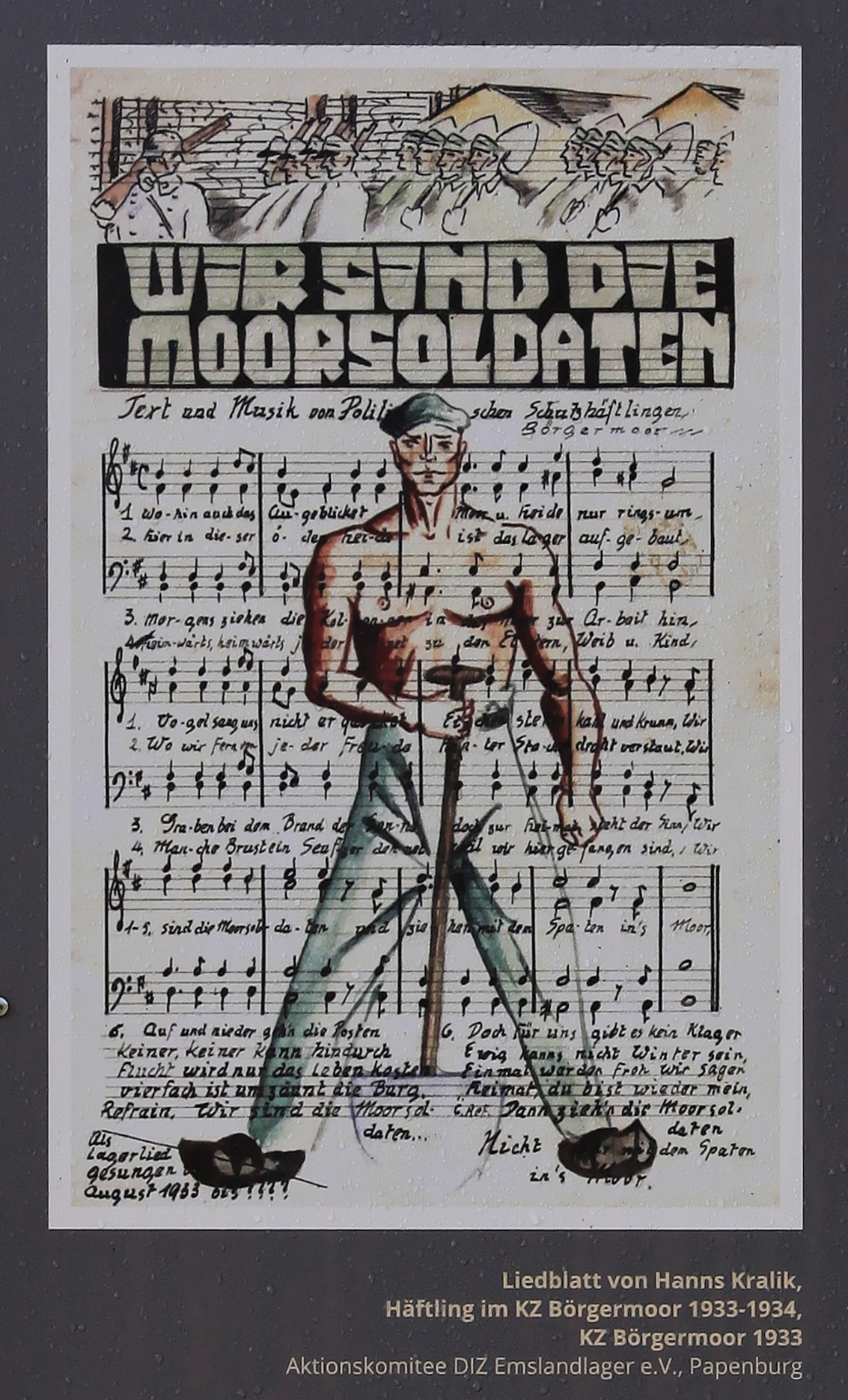 Commemoration point of the Börgermoor concentration camp, Im Eichengrund in Surwold